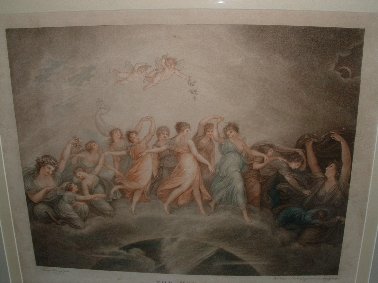 Zoomed-in view of original engraving "The Hours" by Francesco Bartolozzi